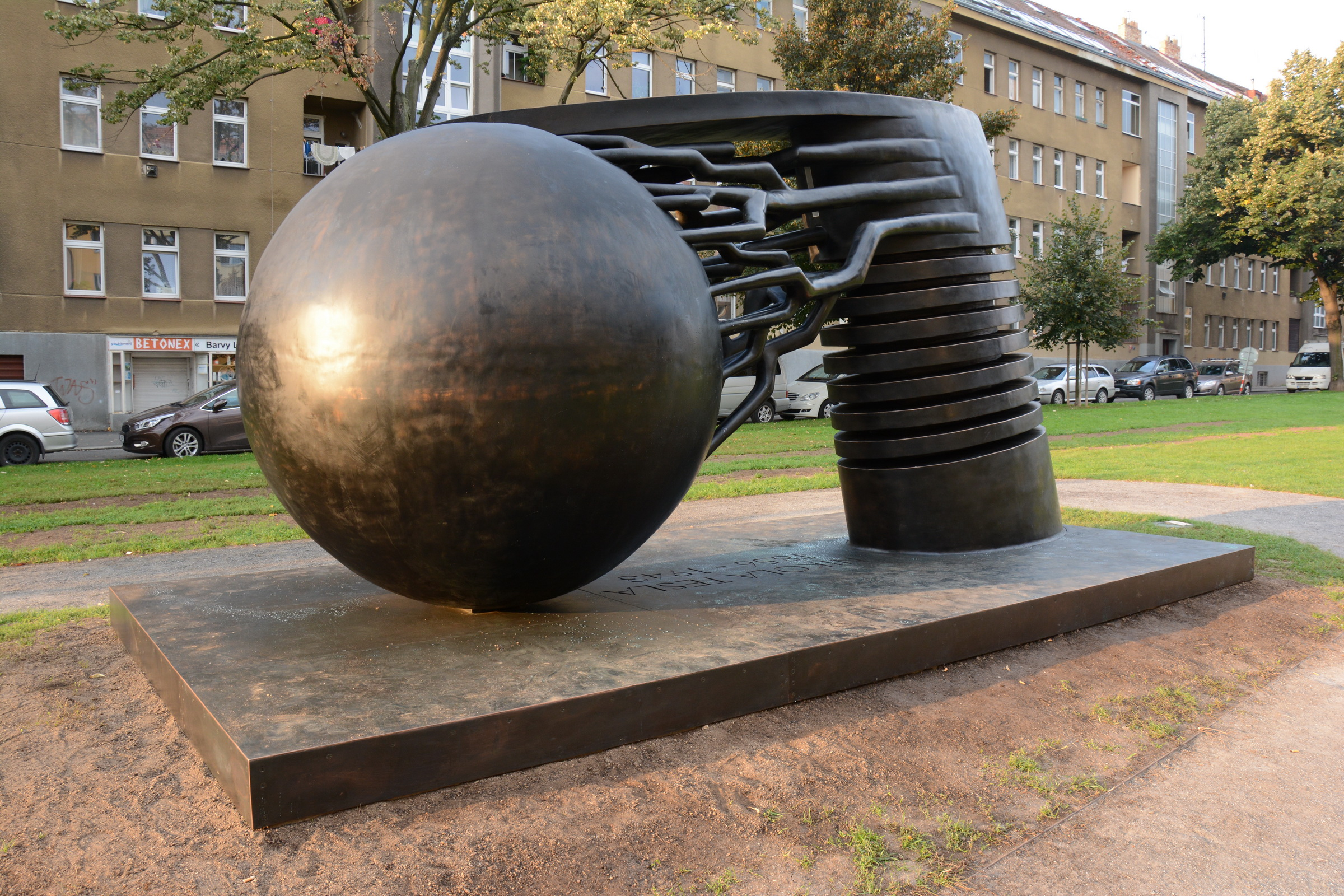 Stefan Milkov (sculptor) and Jiří Trojan (architect): Nikola Tesla monumet in Prague. Unveiling 4 september 2014.